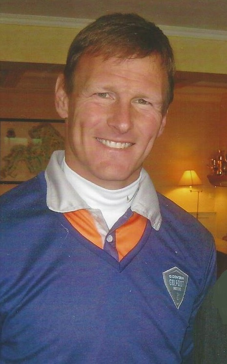 The English footballer Teddy Sheringham.